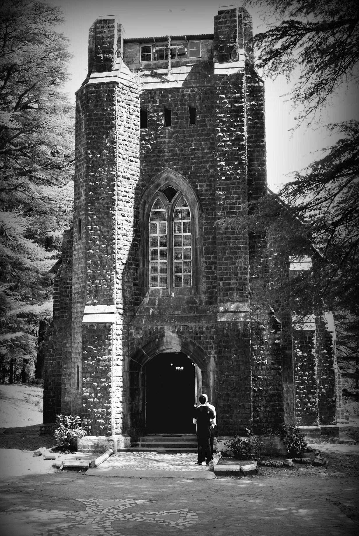 Lord Eligin's tomb, near Mcleodganj in Dhramshala district of Himanchal Pradesh India. I shot this Picture in April 2012. I have mentioned my copyright on the pic itself but i hereby allow wikipedia to use it under the license applicable for this project. Cropped caption: St. John in the Wilderness © Ashish